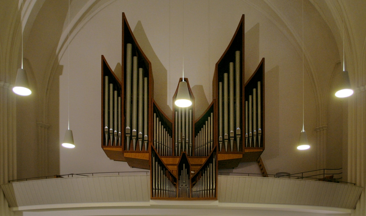 The organ of the Heilandskirche in Berlin-Moabit.